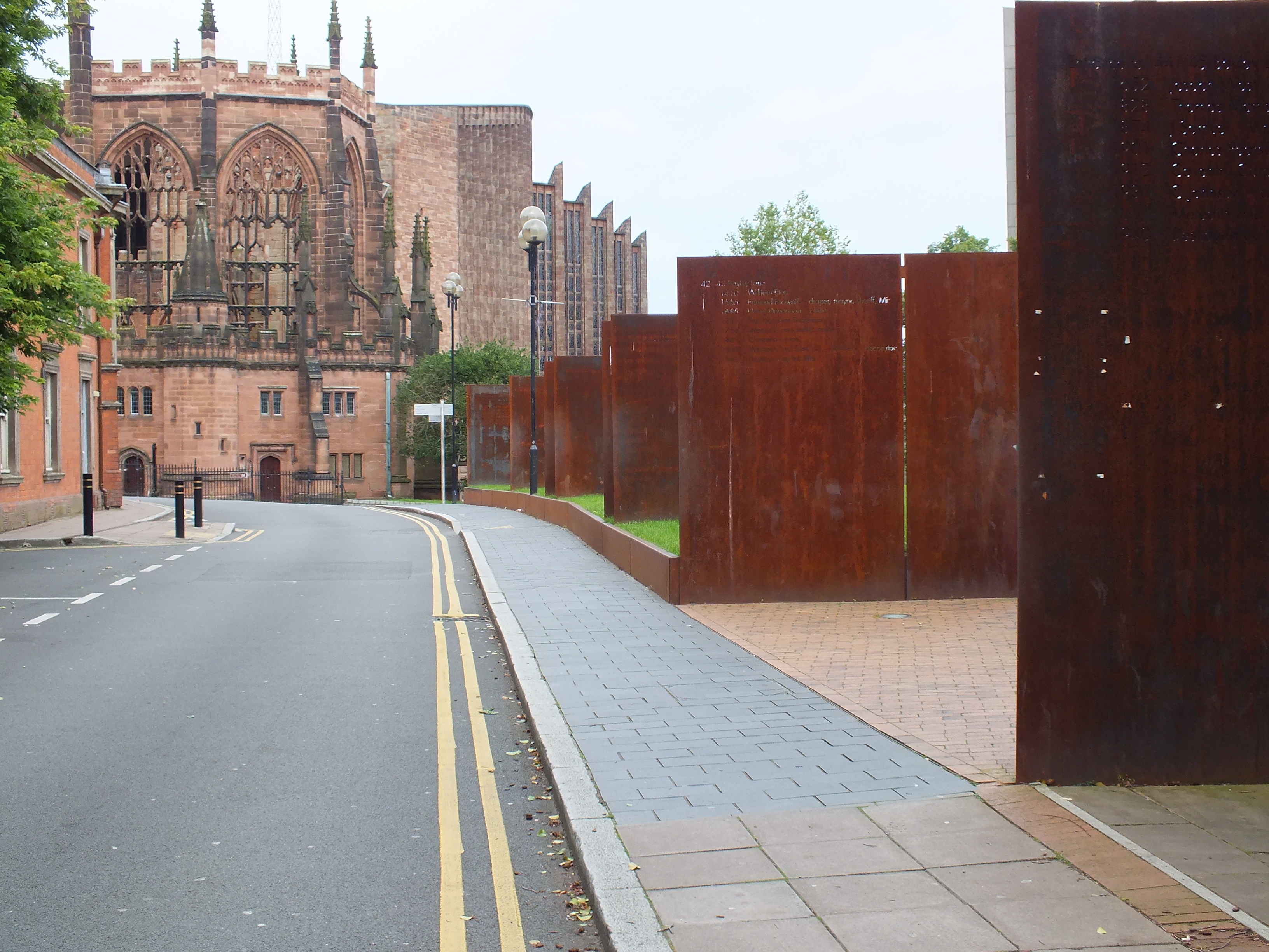 A1 - Herbert Art Gallery and Museum in Coventry, UK